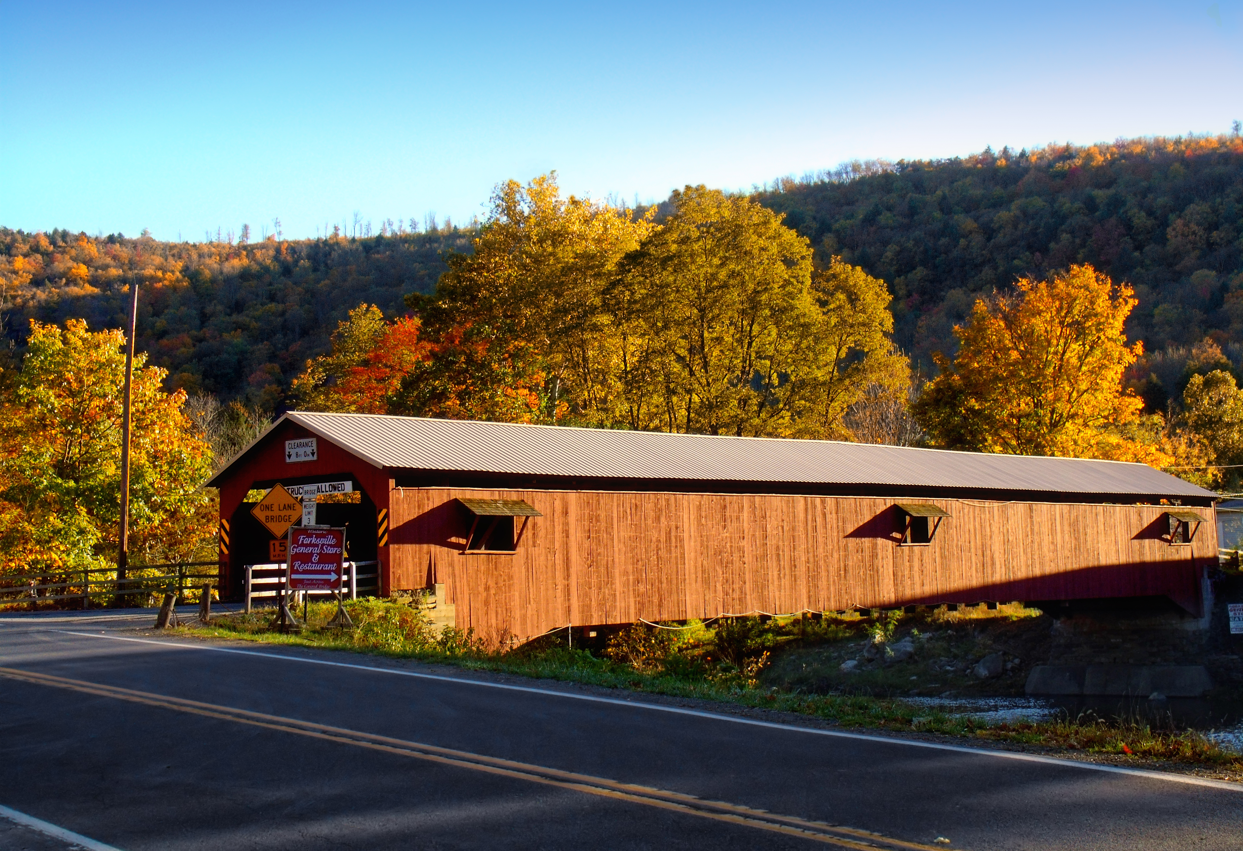 Forksville Covered Bridge, Sullivan County, along PA Route 154 north of World's End State Park.